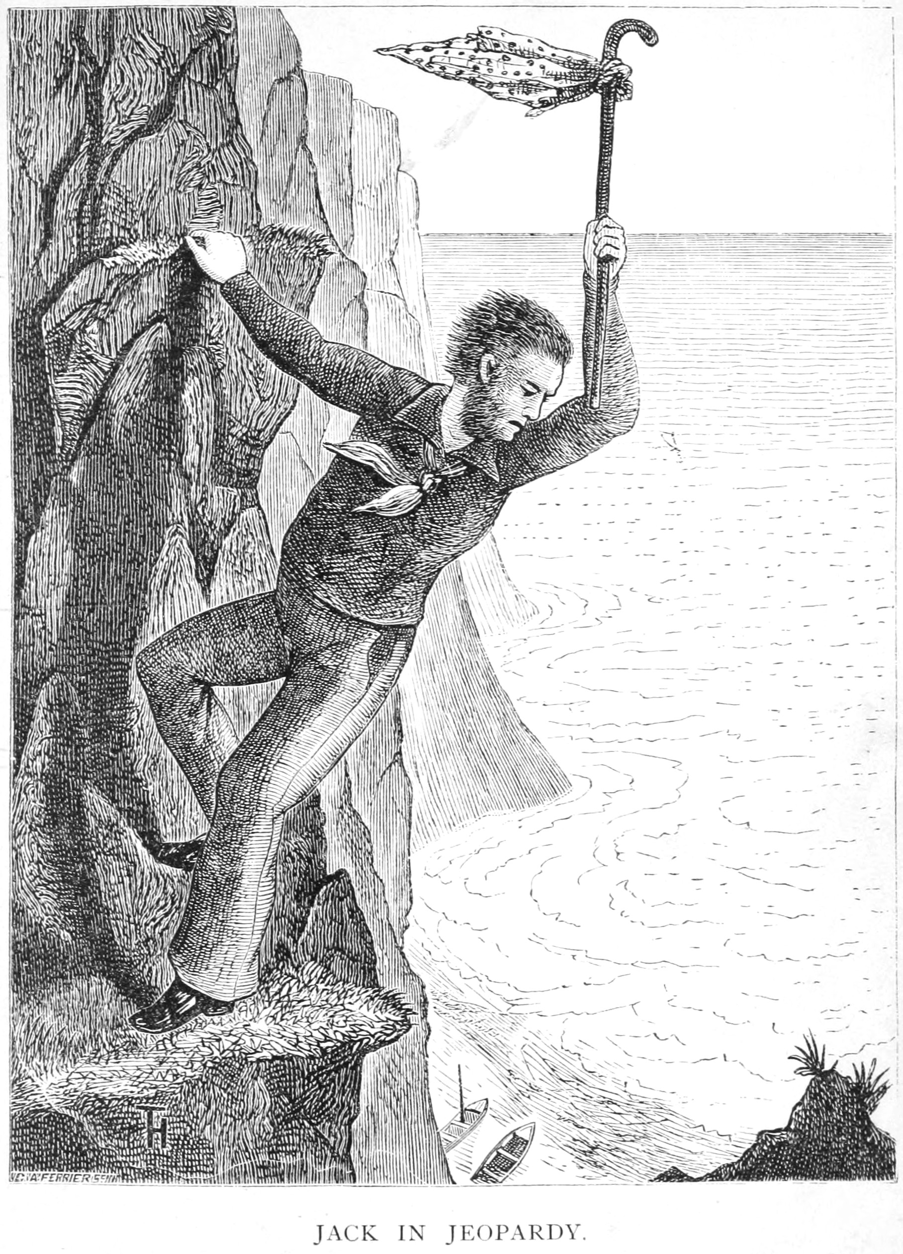 From "Tales of the toys: told by themselves (1869)"